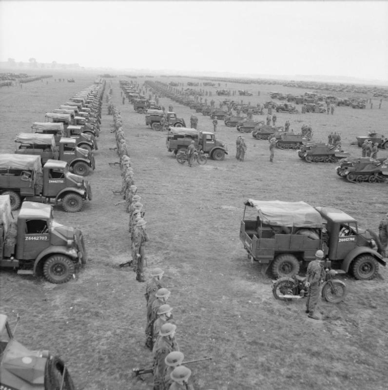 The British Army in the United Kingdom 1939-45 15-cwt trucks, carriers and motorcycles of a motor battalion in 6th Armoured Division, lined up for an inspection by the King near Brandon in Suffolk, 12 September 1941.